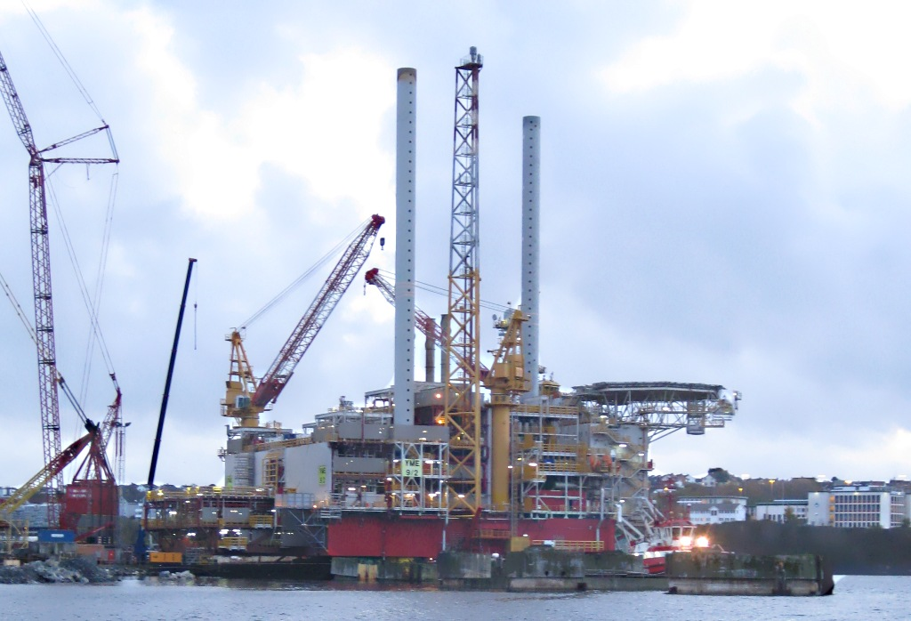 YME yard stay in Stavanger 2012